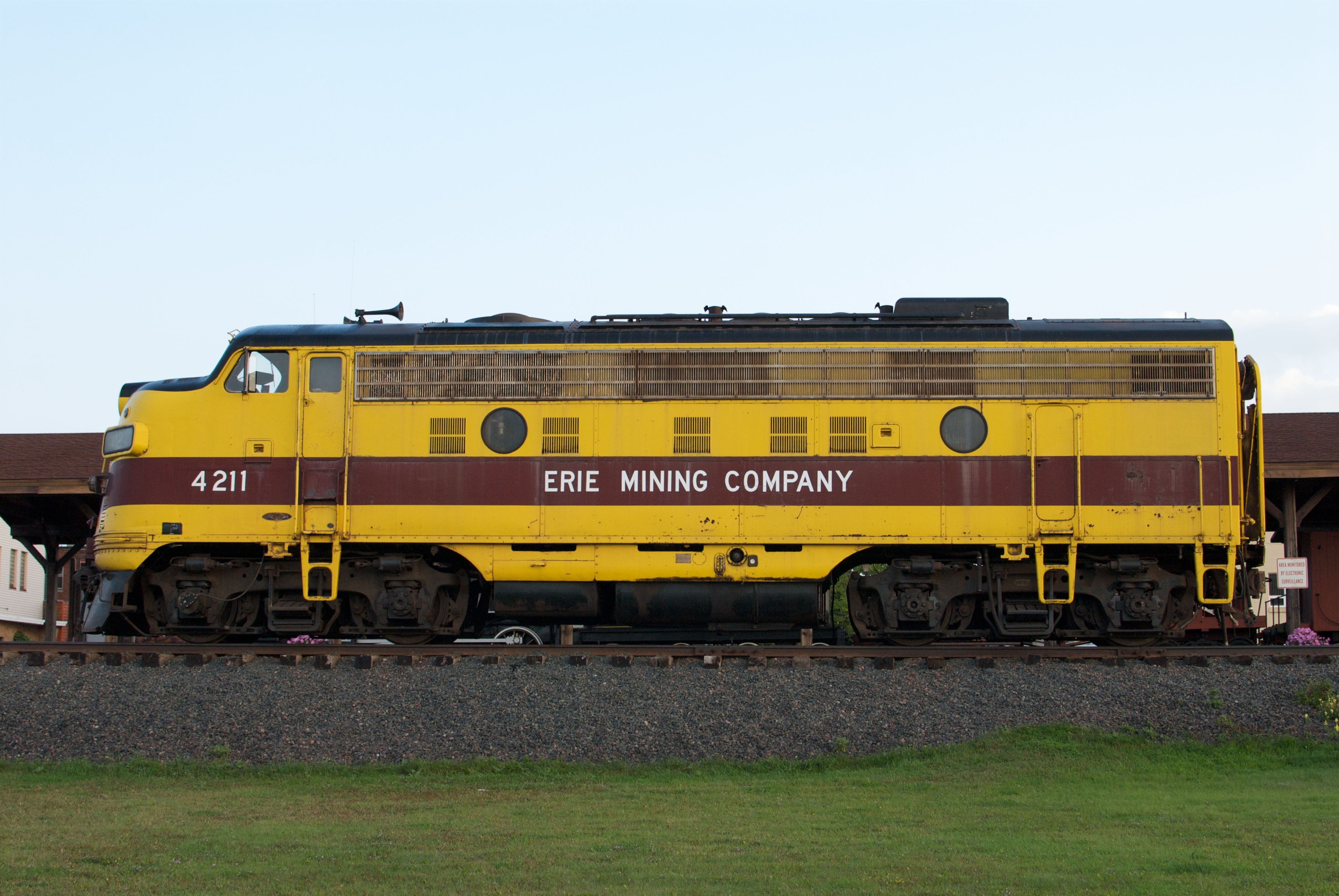 This is an EMD F9 A-unit that was built in 1957 at the EMD plant in LaGrange, IL. It spent its whole working life with the Erie Mining Company pulling iron ore cars to the ore docks on Lake Superior. When it was retired, it was given to the Lake Superior Railroad Museum. Although this locomotive looks a little rough, it is in good working order and was left in Two Harbors for the weekend as backup motive power for the North Shore Scenic Railroad in case the Soo Line 2719 Steam Locomotive encountered problems. The F9 was an early diesel locomotive. This model was often coupled with a cabless "B" unit to provide additional pulling power. The cabless unit was controlled from the cab of the "A" unit.